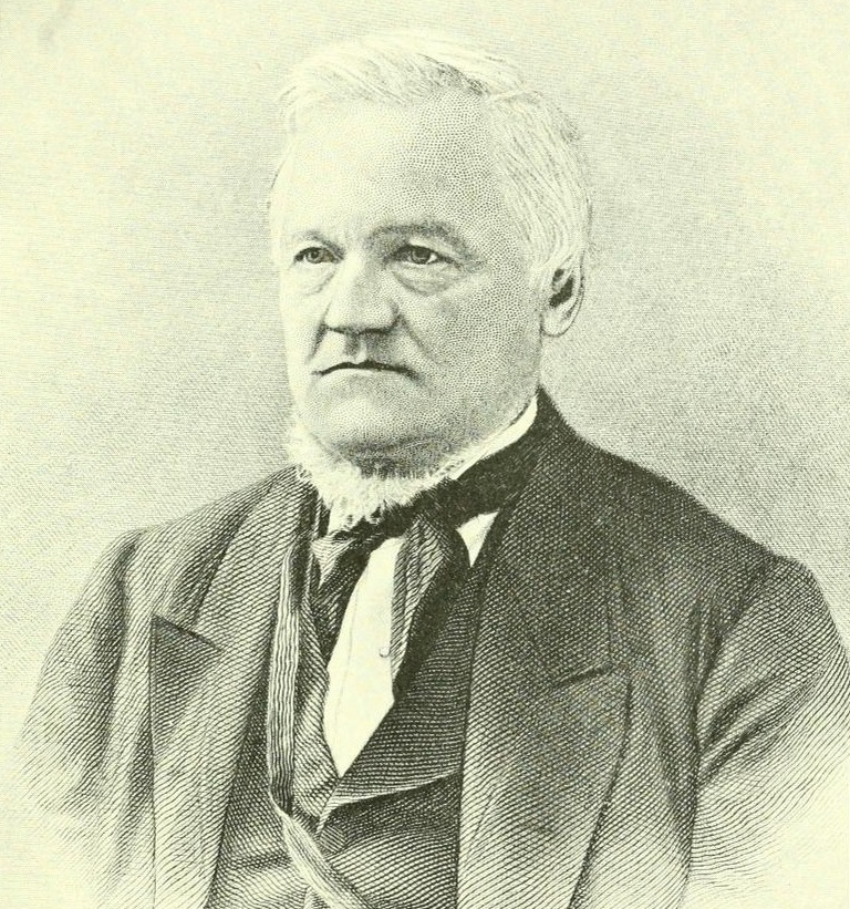 Martin Grover, Congressman and Judge from New York